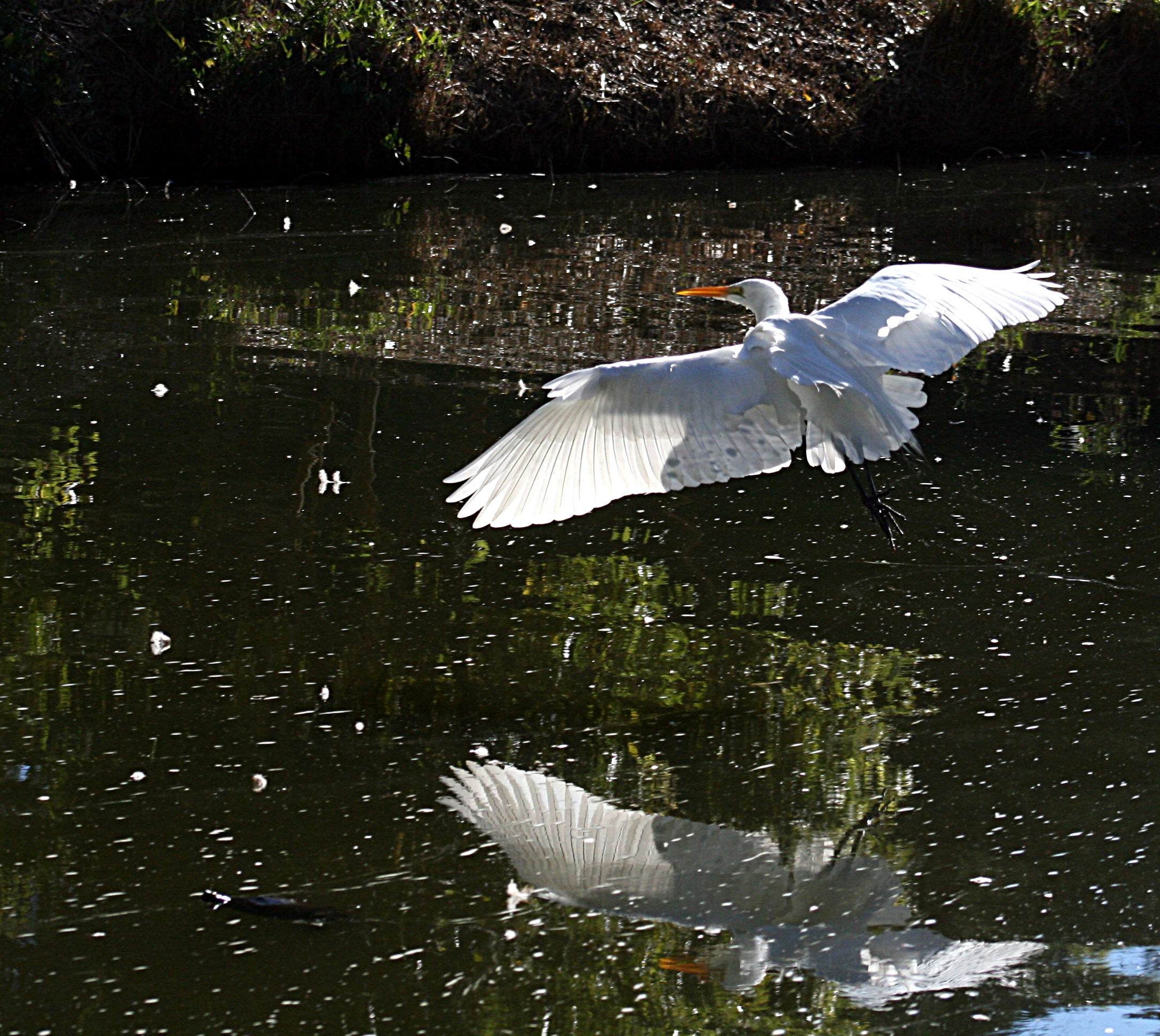 Great Egret and his reflection